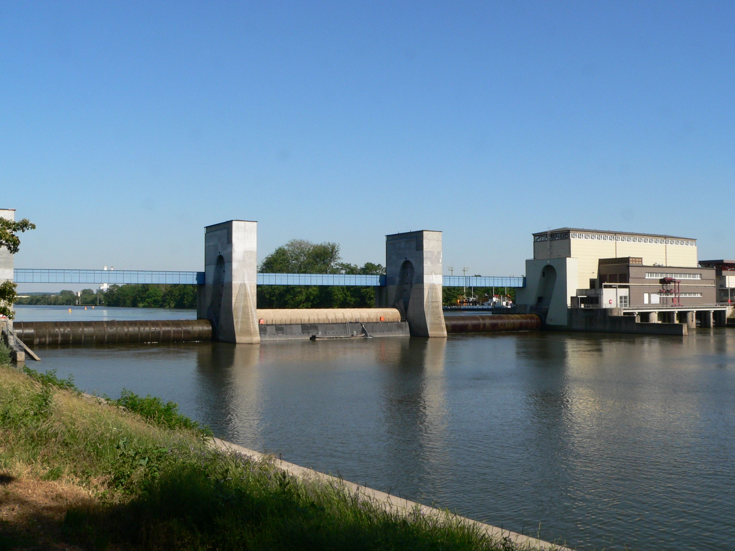 Main: Weir and sluice in Griesheim, Frankfurt am Main